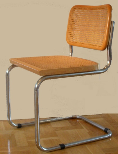 Cantilever chair